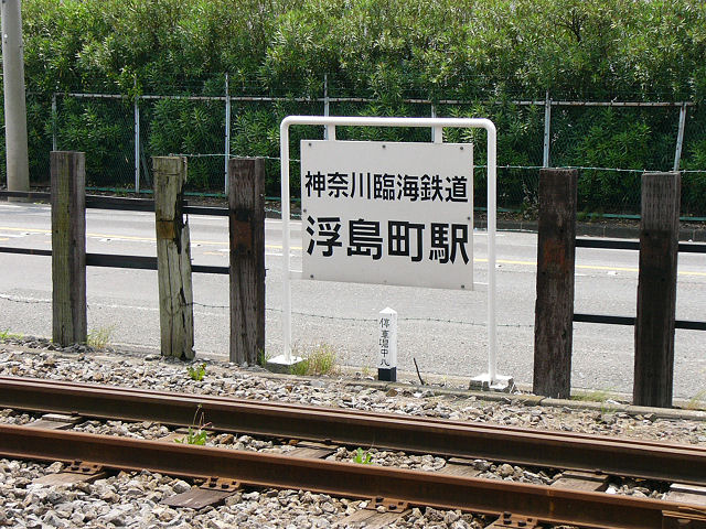 Ukishima-cho Station, Kanagawa Rinkai Tetsudo (Seaside railway of Kanagawa). Place: Ukishima-cho Station, Kawasaki Kawasaki Kanagawa, Japan.